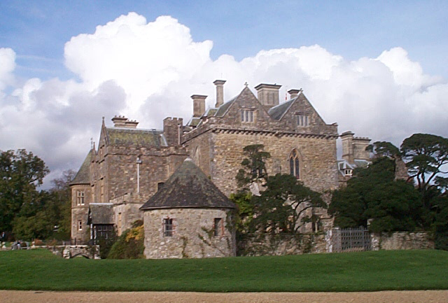 The post-Dissolution mansion at Beaulieu, known as Palace House, was built around the mediaeval gatehouse of the abbey (the double gabled building in the centre-right of the picture). This was an unusual decision as such houses were most often built around the cloister or the west range of the abbey buildings.